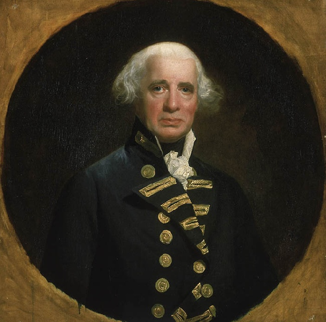 Portrait of British Admiral Richard Howe (1726-1799).